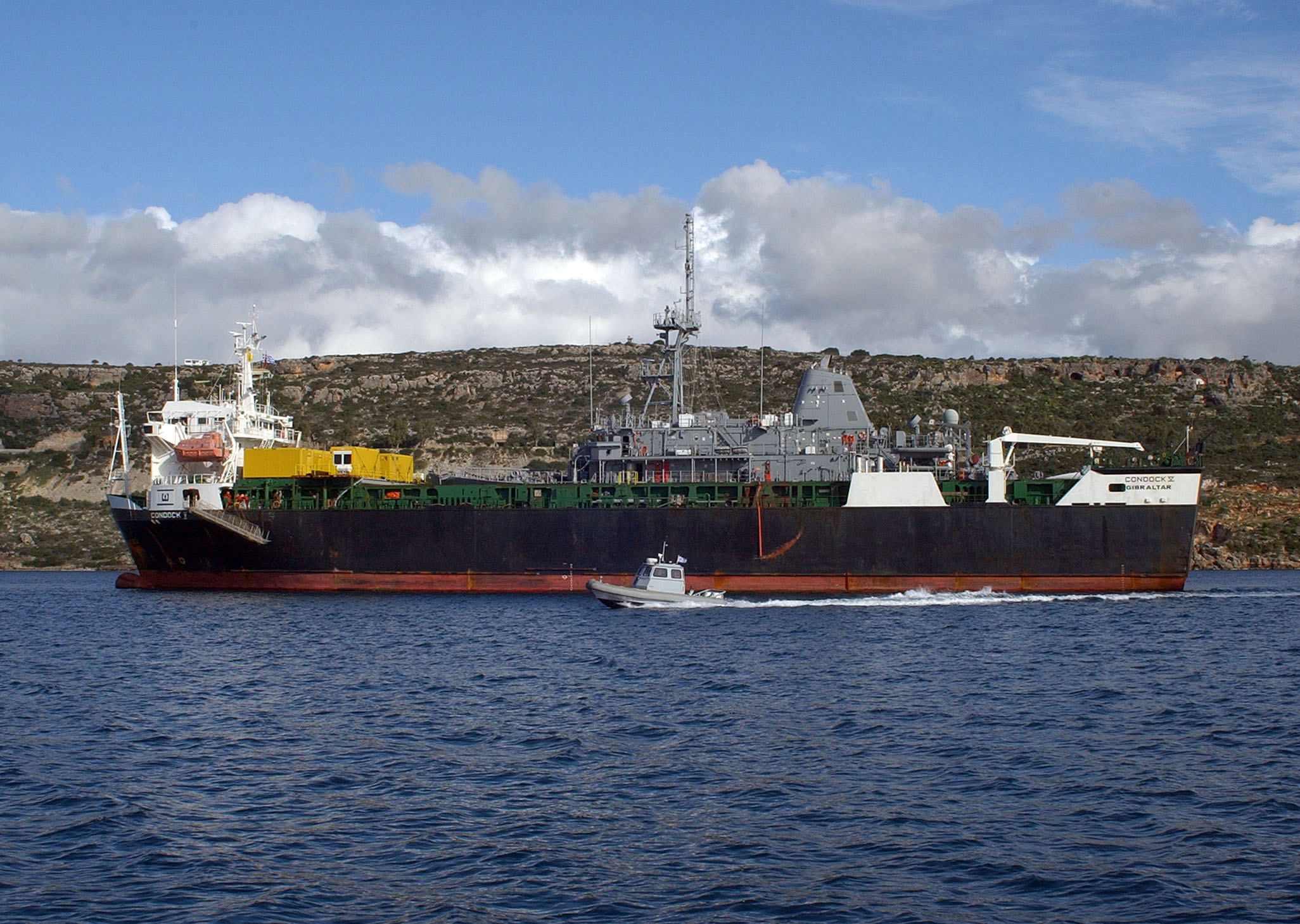 Souda Bay, Crete, Greece - Mine warfare ship USS Gladiator (MCM 11) sits on the deck of Condock V, a Heavy Lift Vessel contracted by Military Sealift Command (MSC), during a brief port visit while transiting the eastern Mediterranean Sea. MSC chartered Condock V after receiving a request to transport Gladiator from Texas to Bahrain. Moving the mine countermeasures ship in this manner prevents the wear and tear of an open-ocean voyage. The 1,300-ton Gladiator was loaded onto Condock V in early December in a process called "float-on," which is used for cargo too large to lift by crane. A second mine countermeasures ship is scheduled to be transferred via heavy-lift on another Condock ship in the near future. Information about Condock V may be found at IMO 8404991.A ship can change name and flag state through time, but the IMO number remains the same through the hull's entire lifetime. As a result, it can be useful to identify a ship by using the IMO number.